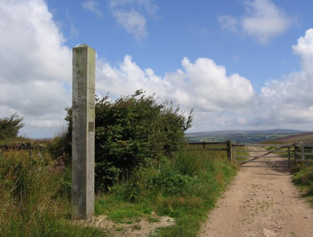 Porchester's Post. The westernmost boundary of the historic Pixton Park estate is marked by "Porchester's Post", a 15 foot high square oak post first erected in 1796 for that purpose, by Henry George Herbert, 2nd Earl of Carnarvon (1772-1833), of Highclere Castle in Hampshire, husband of Elizabeth "Kitty" Acland, heiress of Pixton. He was then aged 24 and until his father's death in 1811 was known by his courtesy title of Lord Porchester. It is located high up on Exmoor between Withypool Hill and Halscombe Allotment (grid reference SS 828 334), 7 miles north-west of Pixton Park. It was renewed and re-erected in 2002 by the Exmoor National Park Authority. A brass plaque attached to it is inscribed: "First erected in 1796 to mark the boundary of the Carnarvon Estate. Re-erected in memory of Lord Porchester, Earl of Carnarvon, Chairman of the 1977 inquiry into the protection of moorland on Exmoor and to commemorate the Golden Jubilee of Queen Elizabeth II in 2002." (the 1977 reference is to Henry Herbert, 7th Earl of Carnarvon (1924-2001)) View: Looking NE.